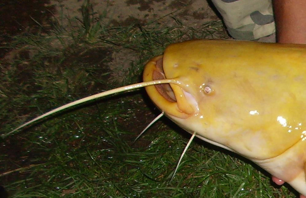 Silurus glanis white (Wels catfish), 121 cm